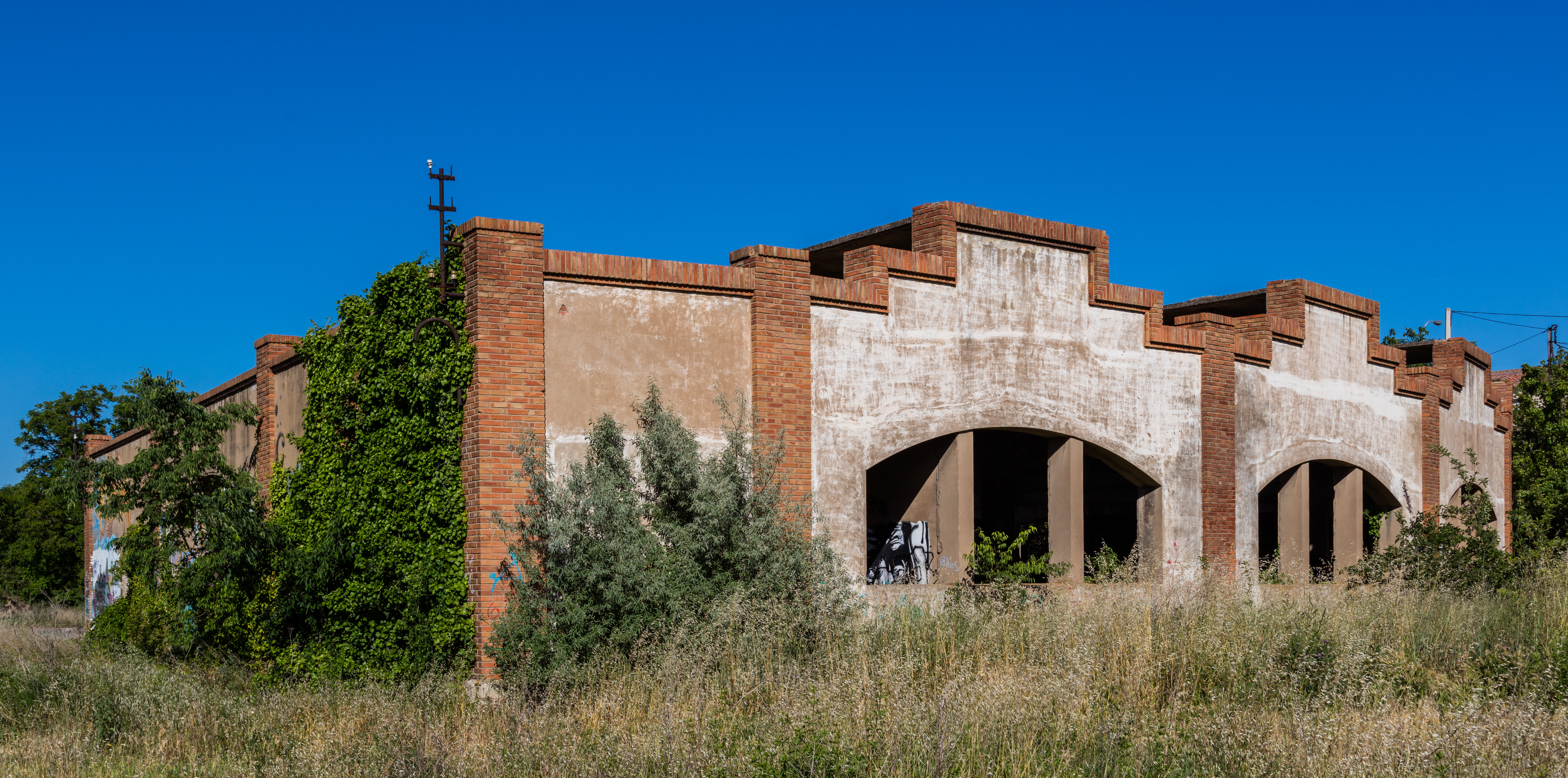 Railway machine room, Tarazona, Spain